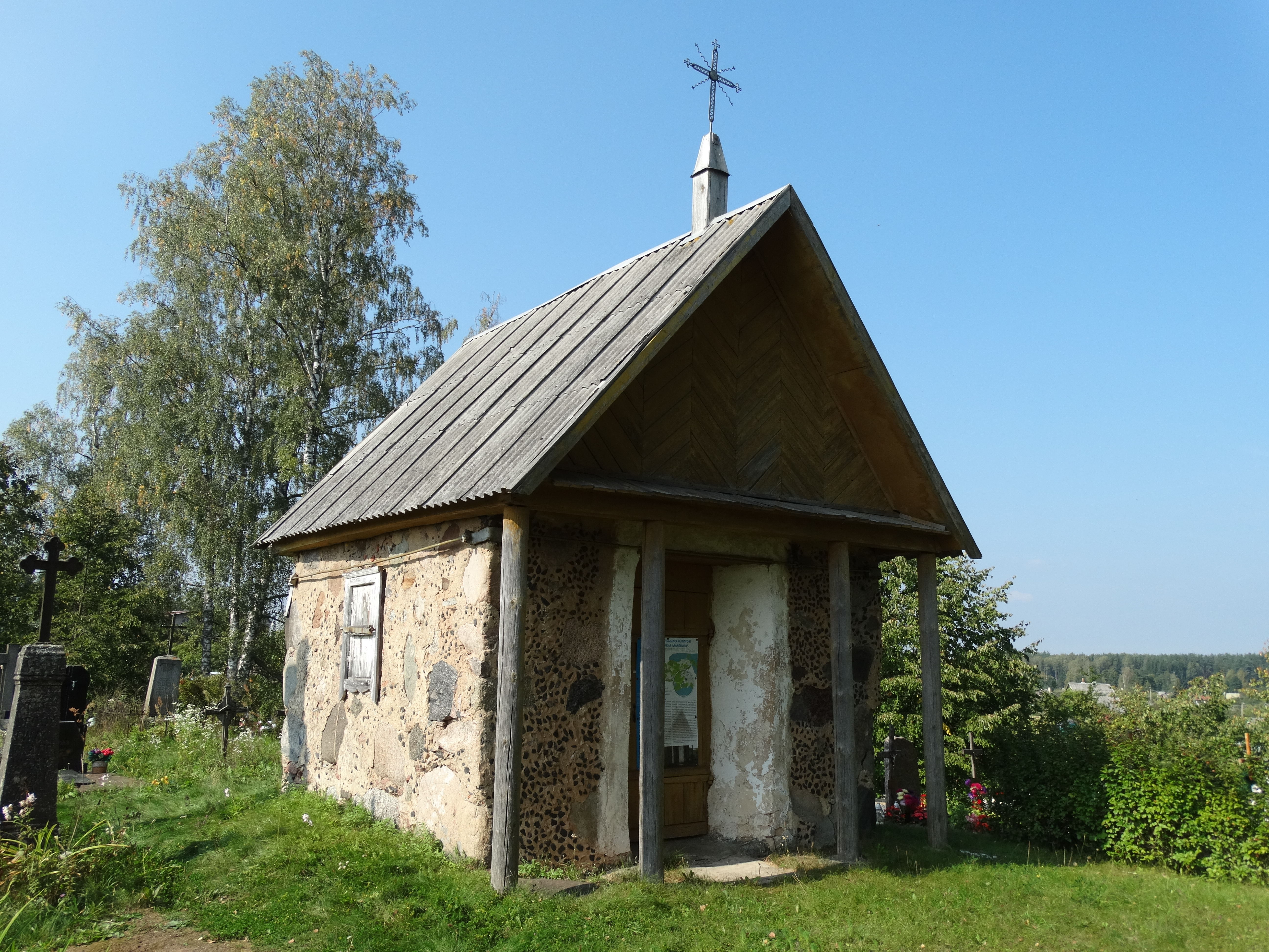 Chapel, Magūnai, Visaginas Municipality, Lithuania